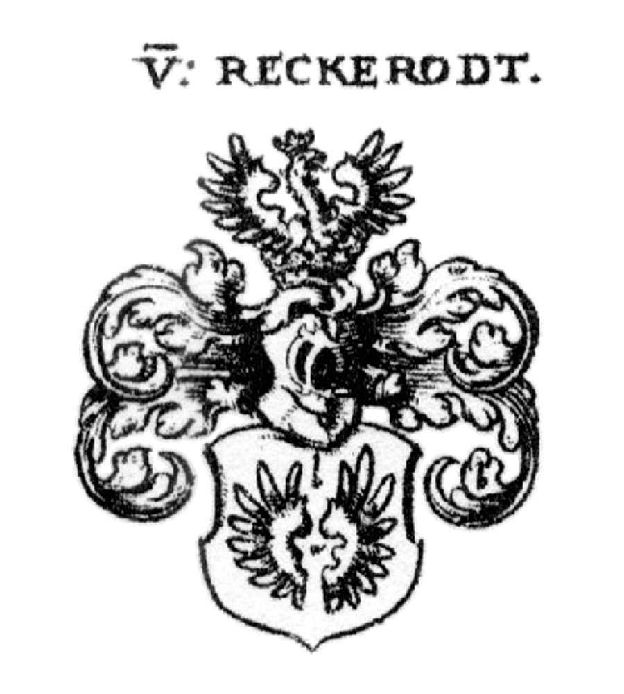 Coats of Arms of Reckrodt (Reckerodt)